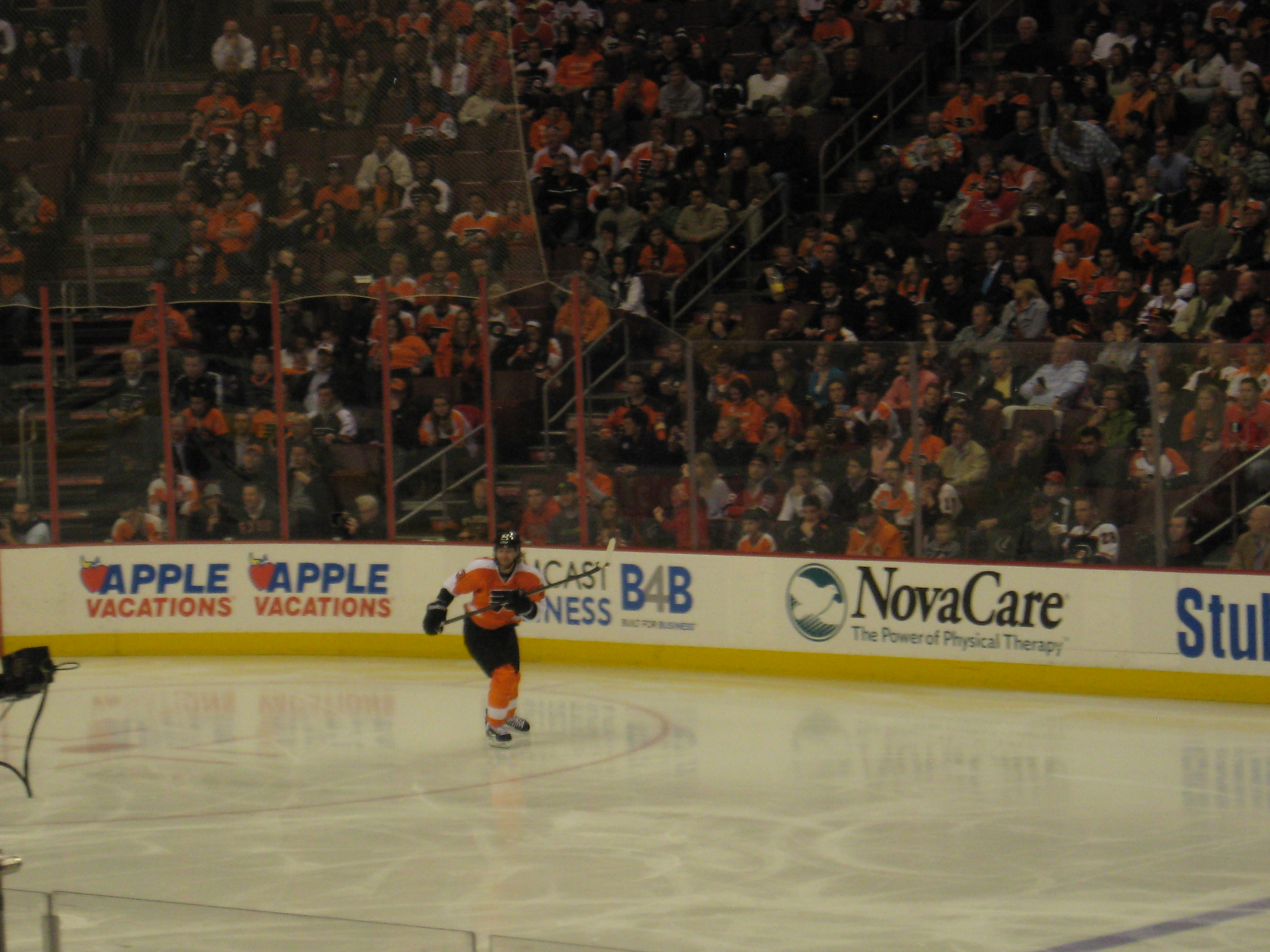 Wells Fargo Center in 2014